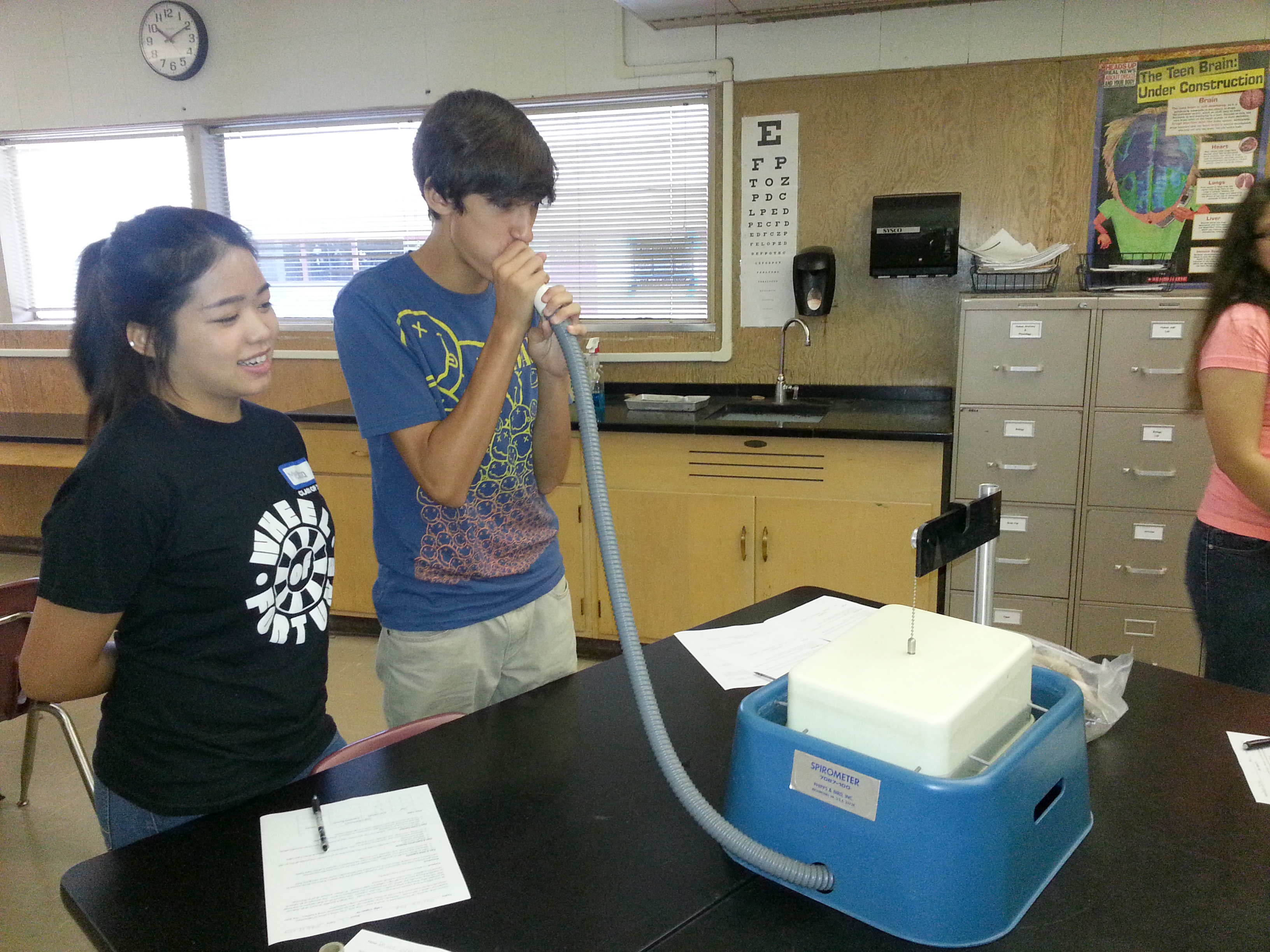 A simple float spirometer being used in a demonstration at Washington Union High School, Fresno, California.